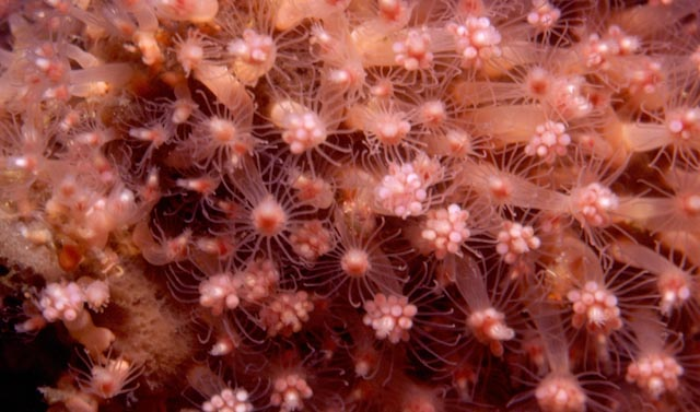 A photograph of tubular sponge hydroids, Zyzzyzus warreni (syn. Zyzzyzus solitarius) taken in 25m of water off the Atlantic coast of the Cape Peninsula, Cape Town using a Nikonos V camera